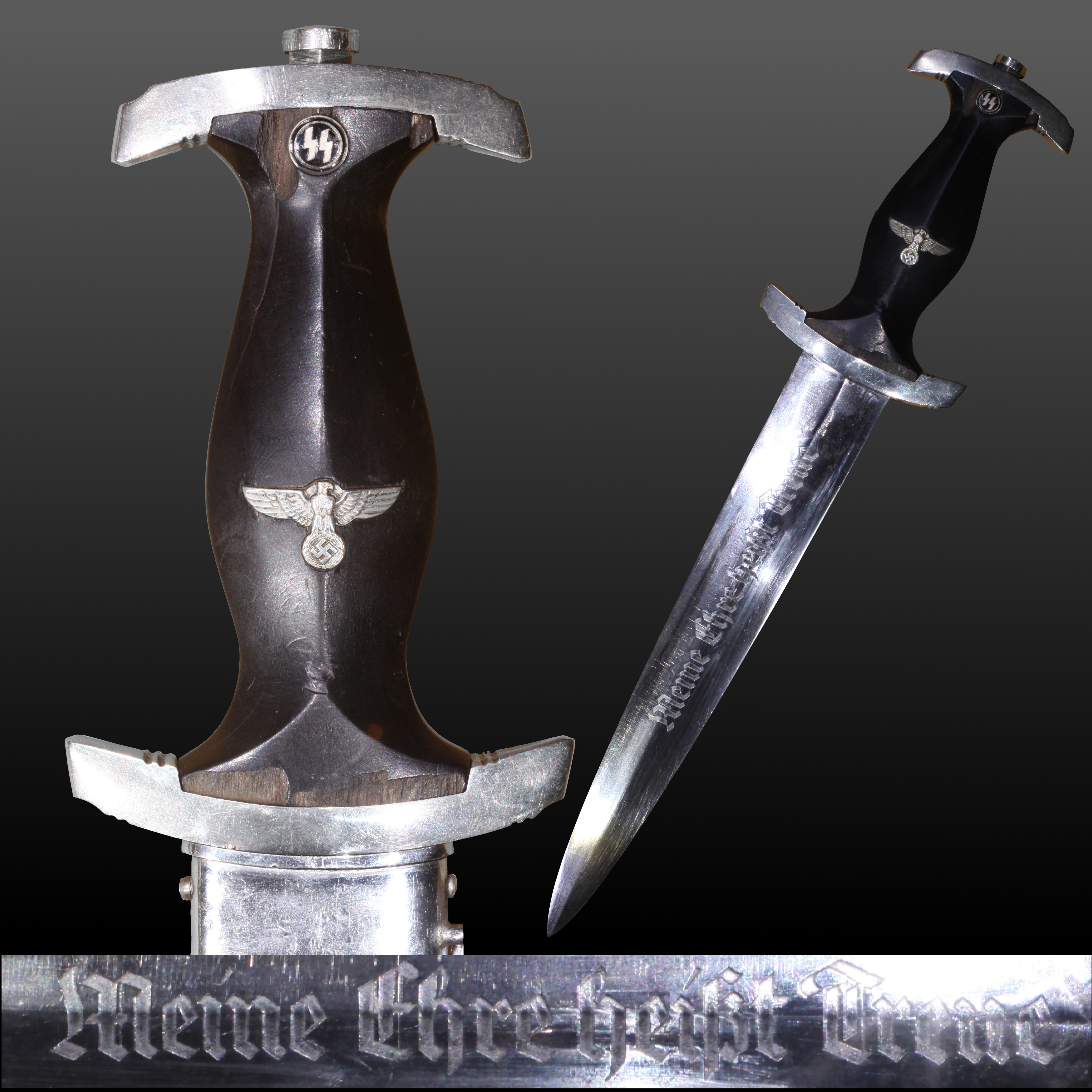 Ordnance dagger of the SS. The motto Meine Ehre heißt Treue is inscribed on the blade. Collection Paul Regnier, Lausanne, Switzerland